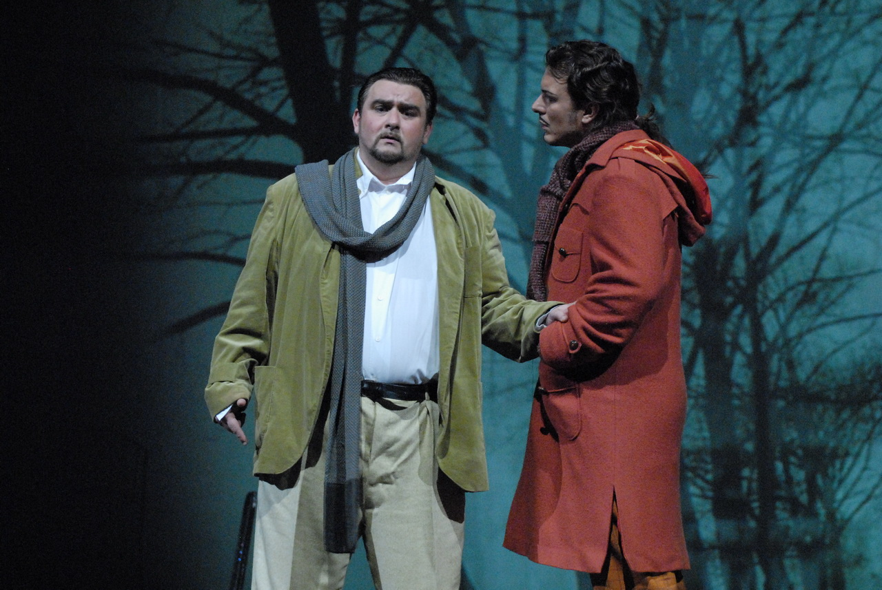 La bohème composed by Giacomo Puccini, Saša Petrović, tenor, Vasa Stajkić, baritone, SNT, Novi Sad, 2006/2007 Srpski (latinica): Boemi, opera Đ. Pučinja, Saša Petrović, tenor, Vasa Stajkić, bariton, SNP, Novi Sad, 2006/2007. Српски (ћирилица): Боеми, опера Ђ. Пучинија, Саша Петровић, тенор, Васа Стајкић, баритон, СНП, Нови Сад, 2006/2007